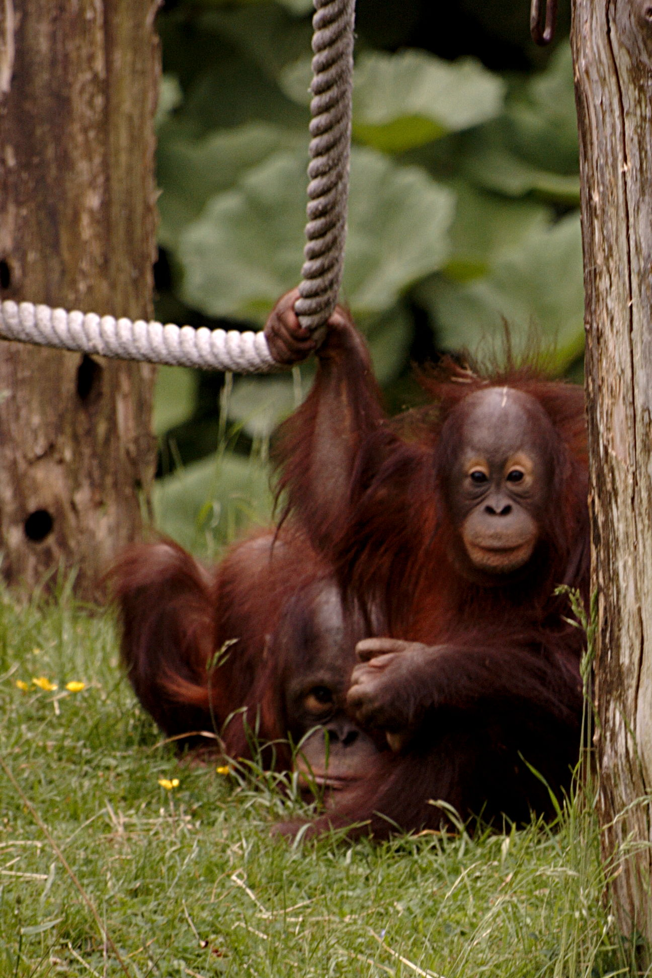 Shot at the Apenheul in the Netherlands.